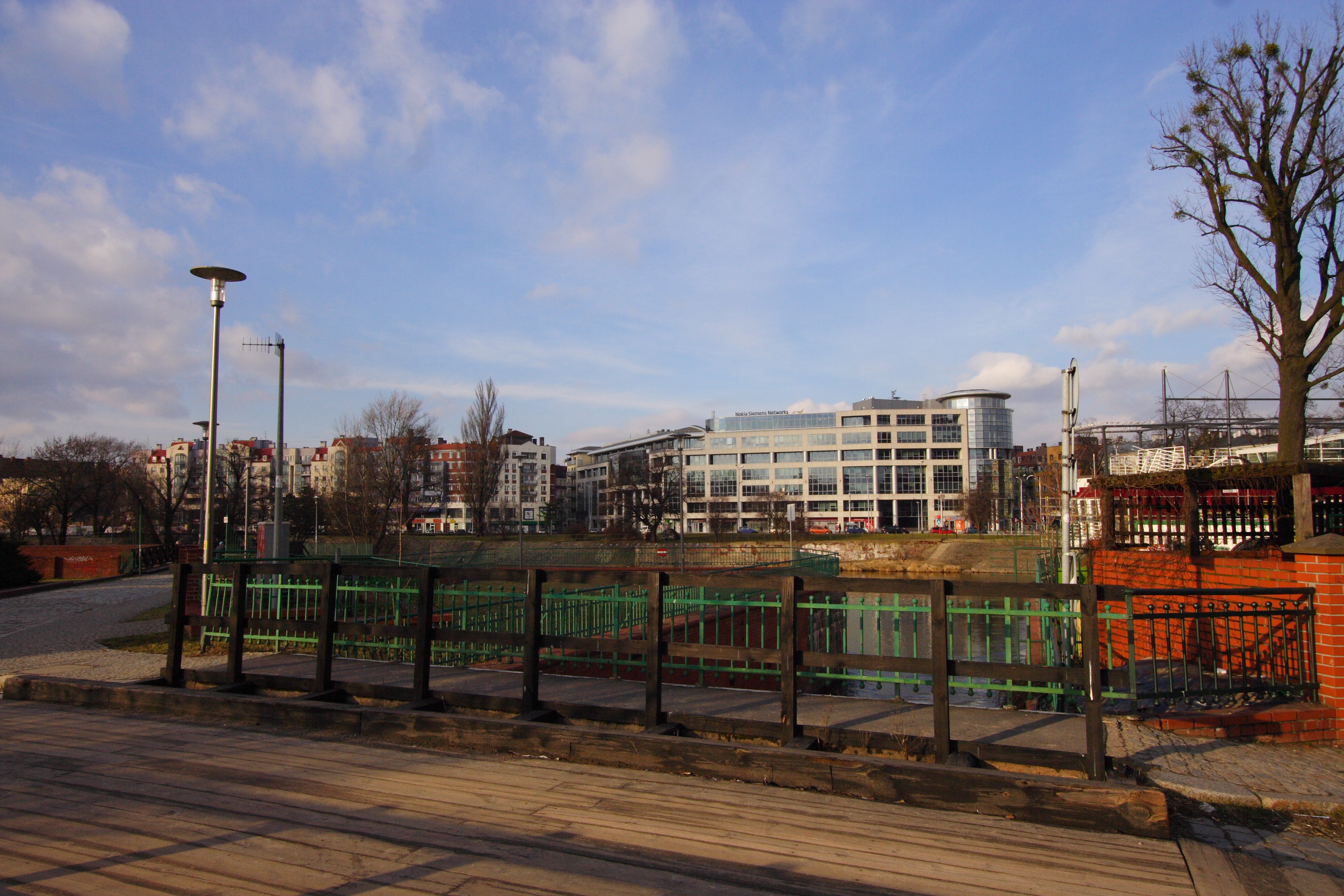 Wroclaw during WikiConference Poland'11